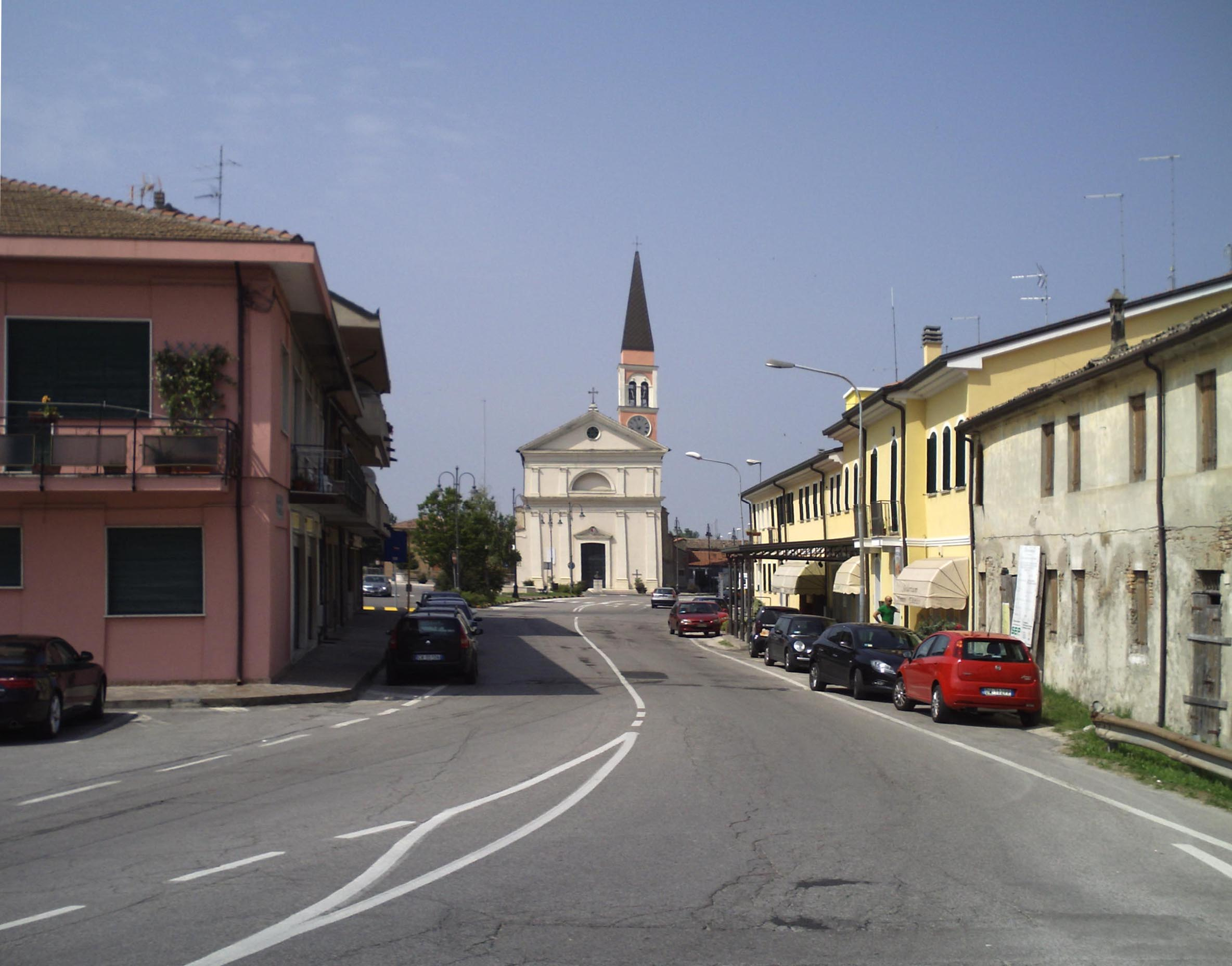 A view of Porto Viro, Italy